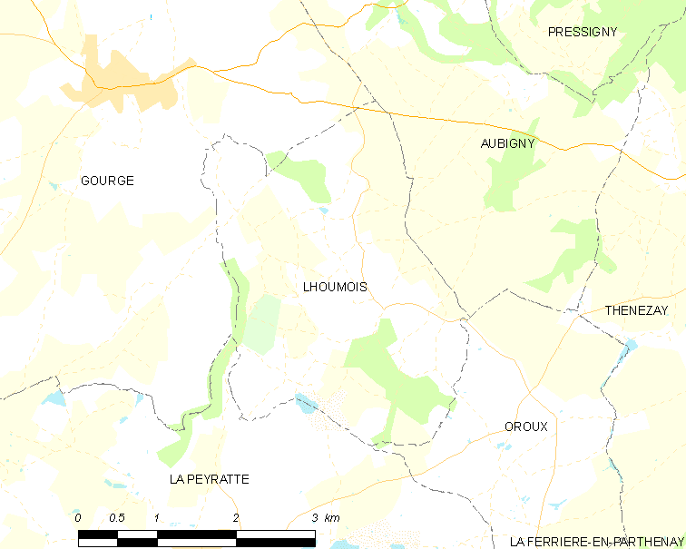 Map of French municipality Lhoumois